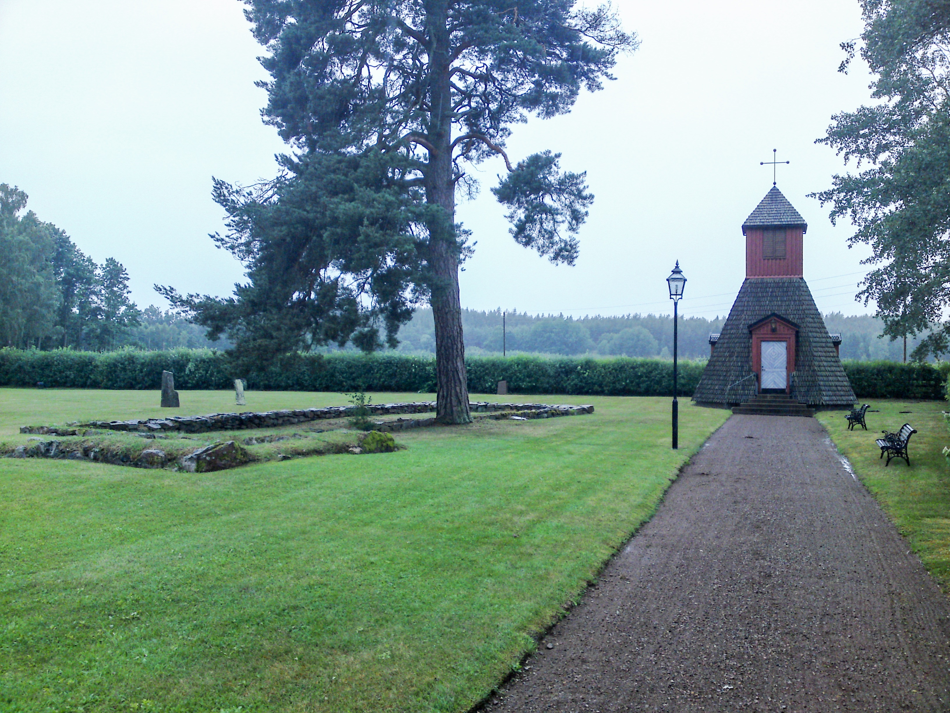 Gårdveda chapel